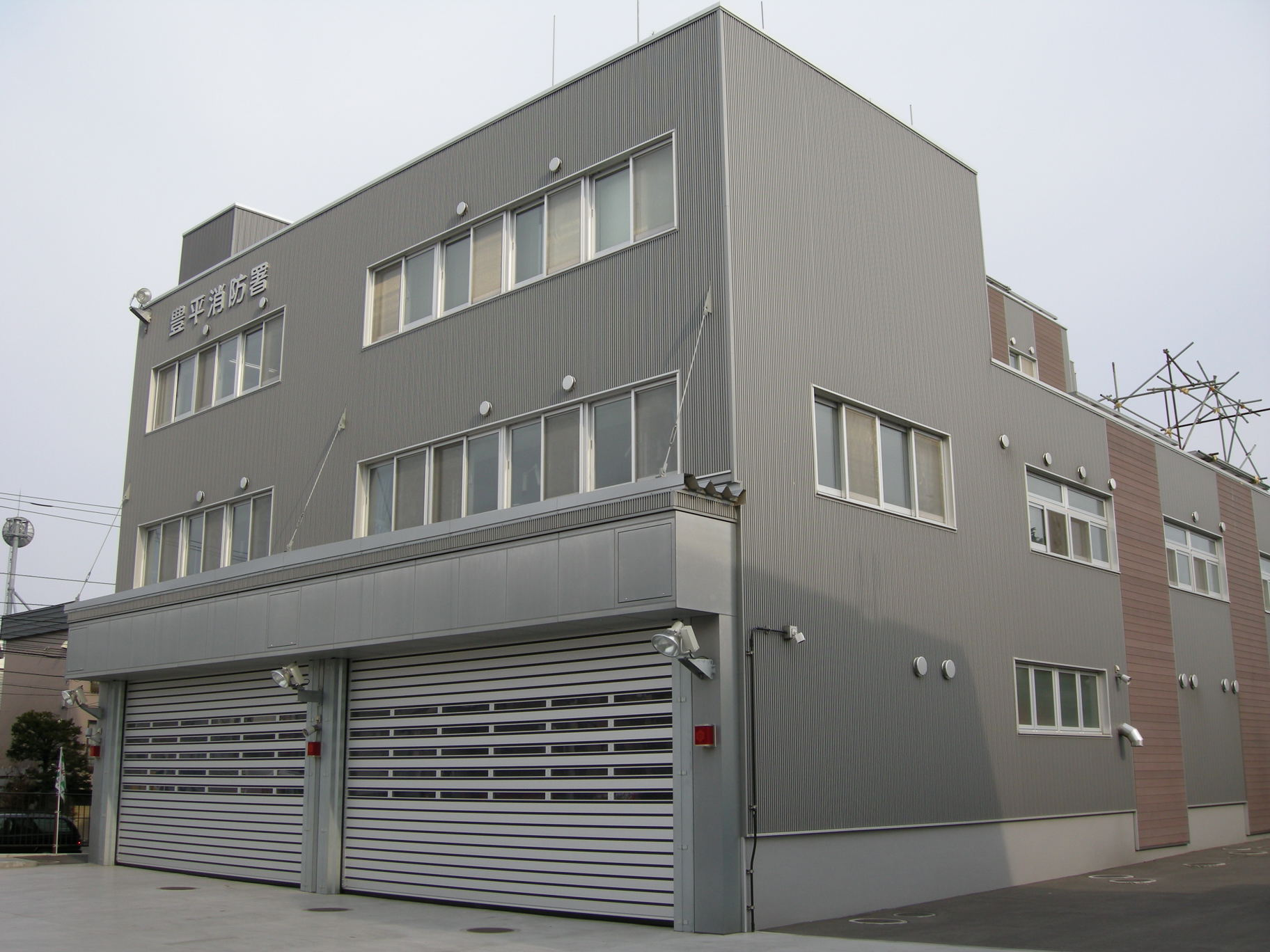 Toyohira fire station in Hokkaido, Japan